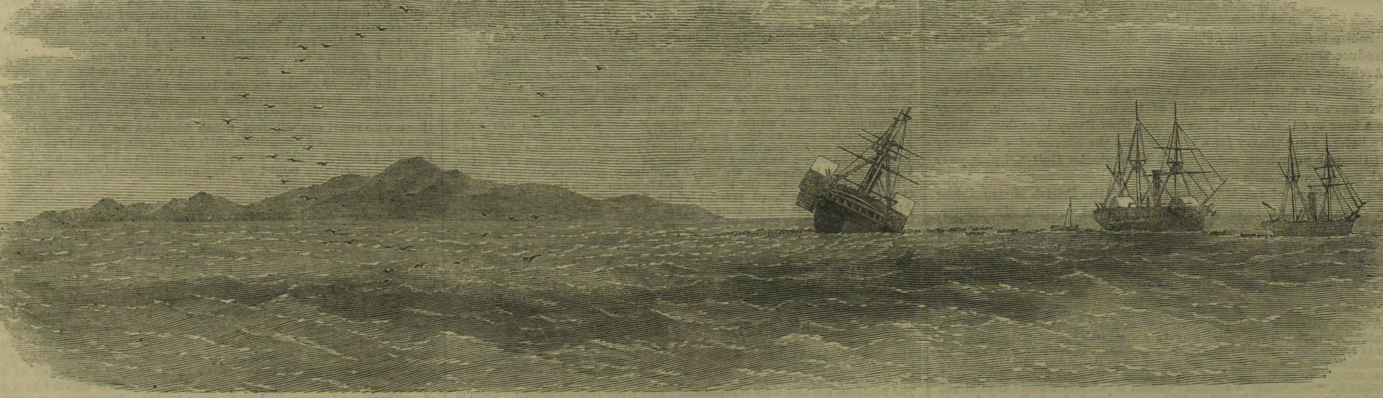 Picture showing the wreck of the paddle steamer Paramatta on the Horseshoe Reef, Virgin Island. Also visible right are the paddle steamer Medway and the screw steamer Wye